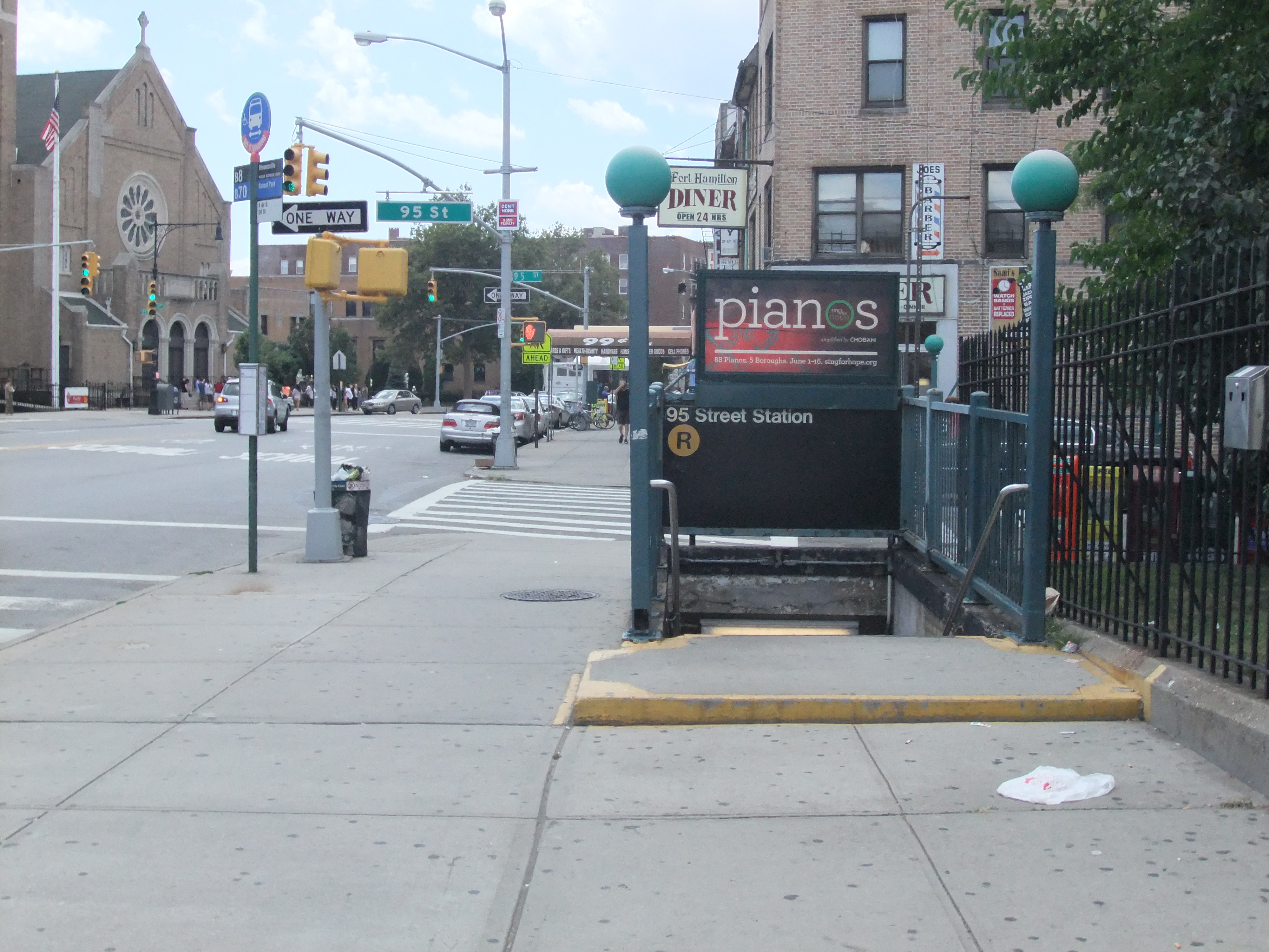 Stair to 95th Street and 4th Avenue from the 95th Street (R) station